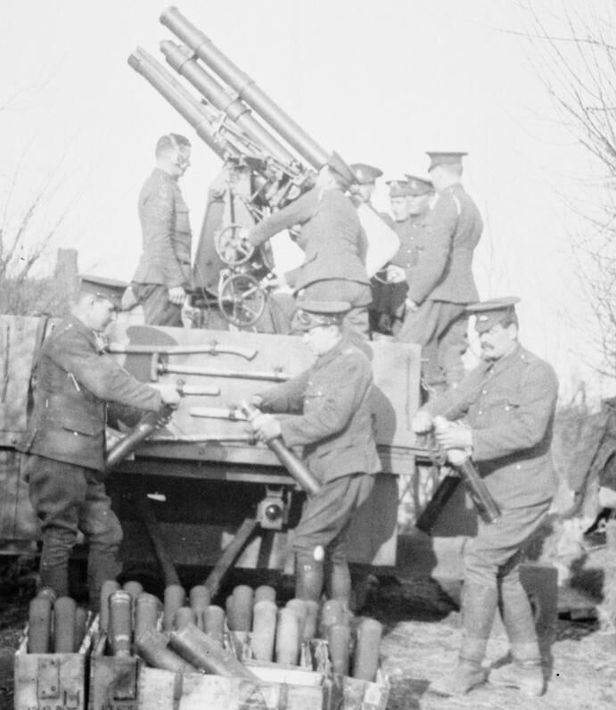 Gunners setting fuzes for a British QF 13 pounder Mk IV anti-aircraft gun, 4th Division, British Expeditionary Force, Nieppe, France.